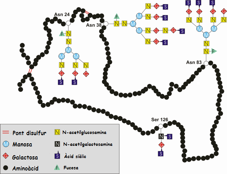 Quimic structure of a EPO-molecule